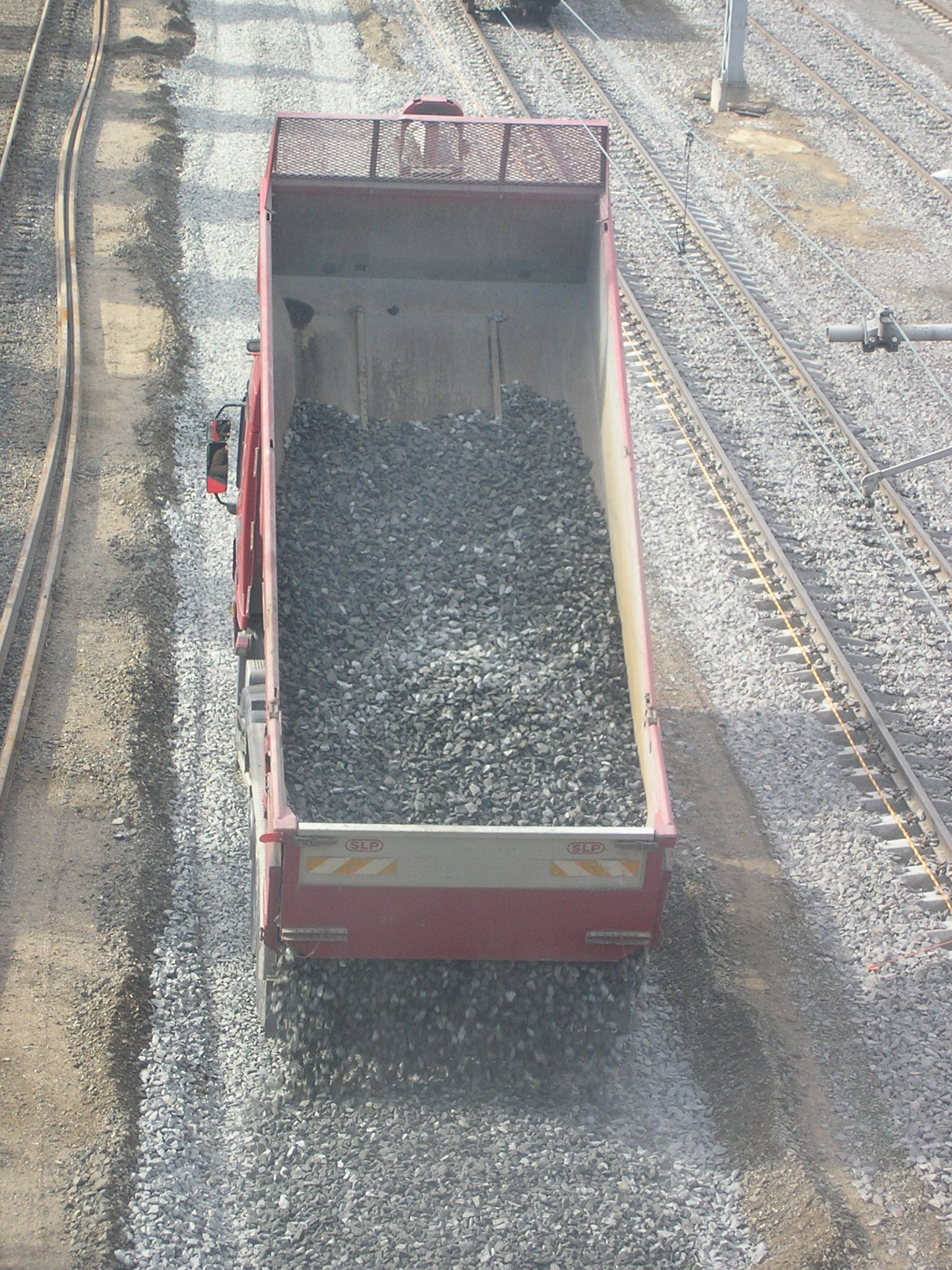 Dump truck laying crushed stone at Jyväskylä railway station, Finland